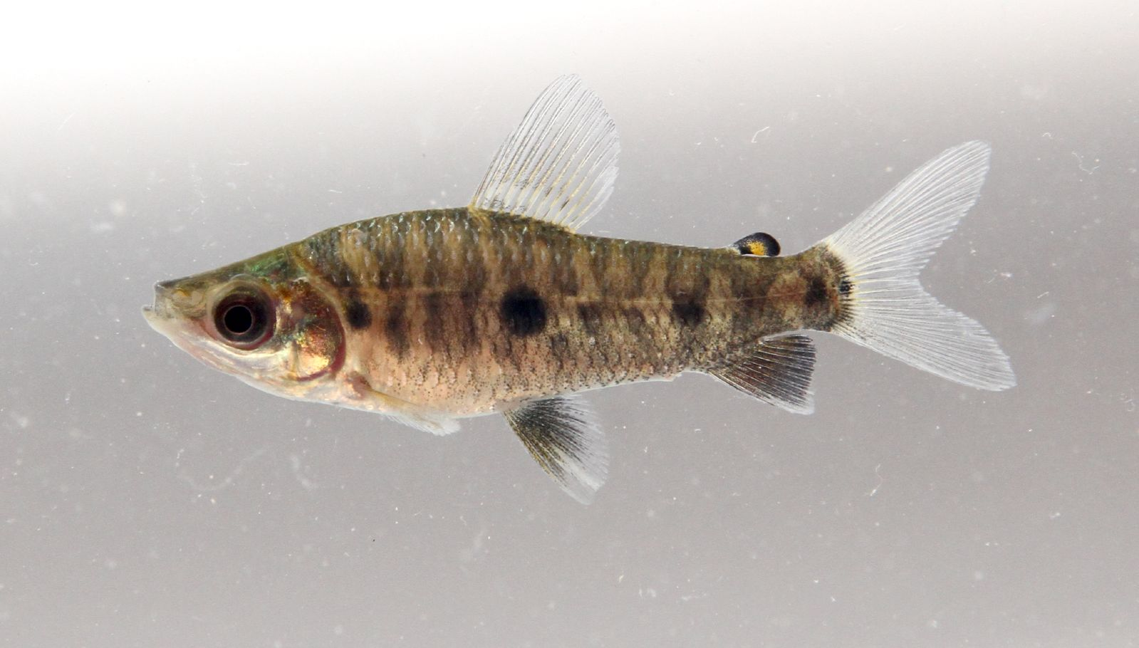 Leporinus cf. friderici